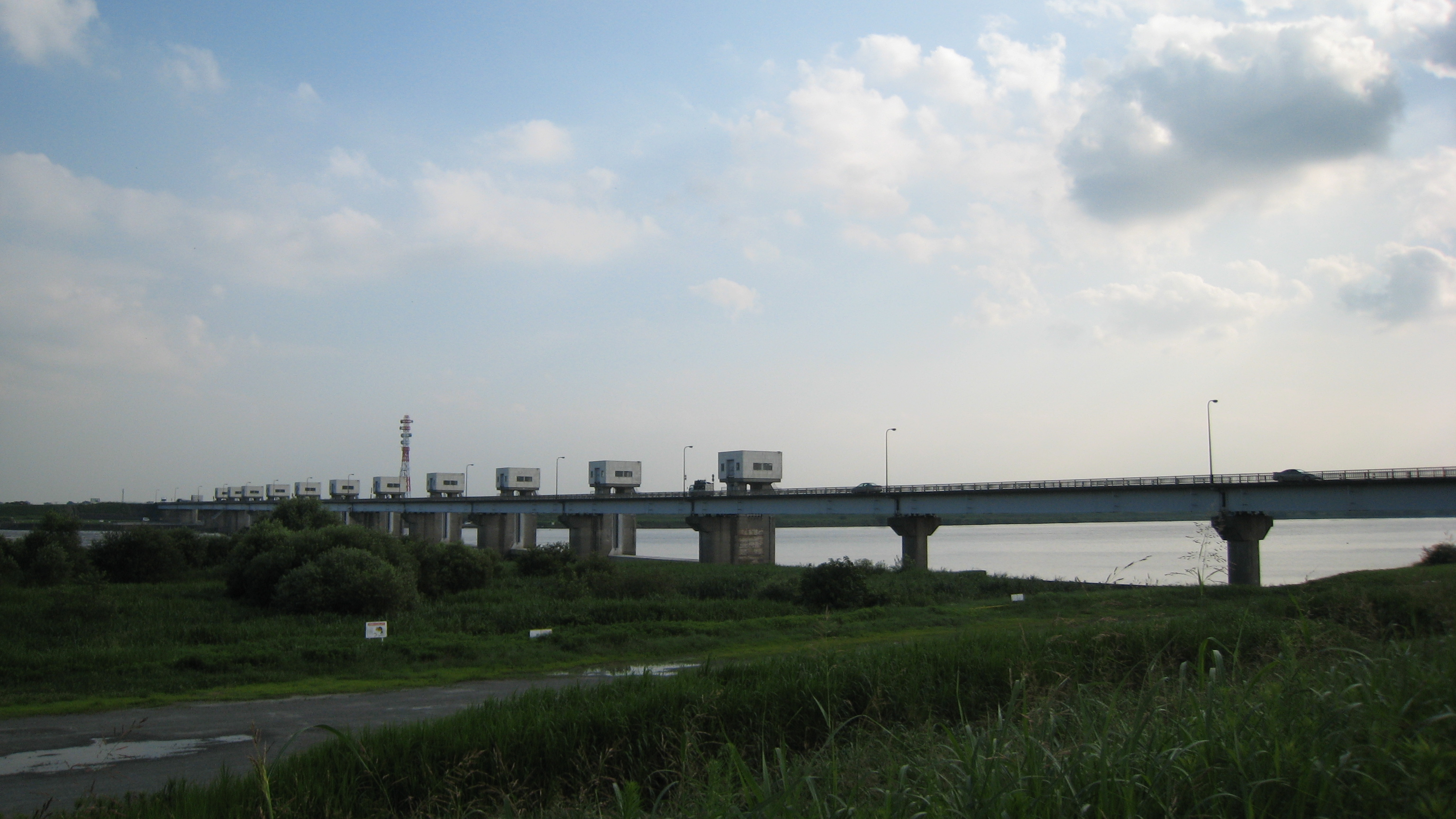 利根川の武蔵大橋、群馬県側から撮影。MusashiOhashi Bridge at Tone River ,Gunma pref,Japan